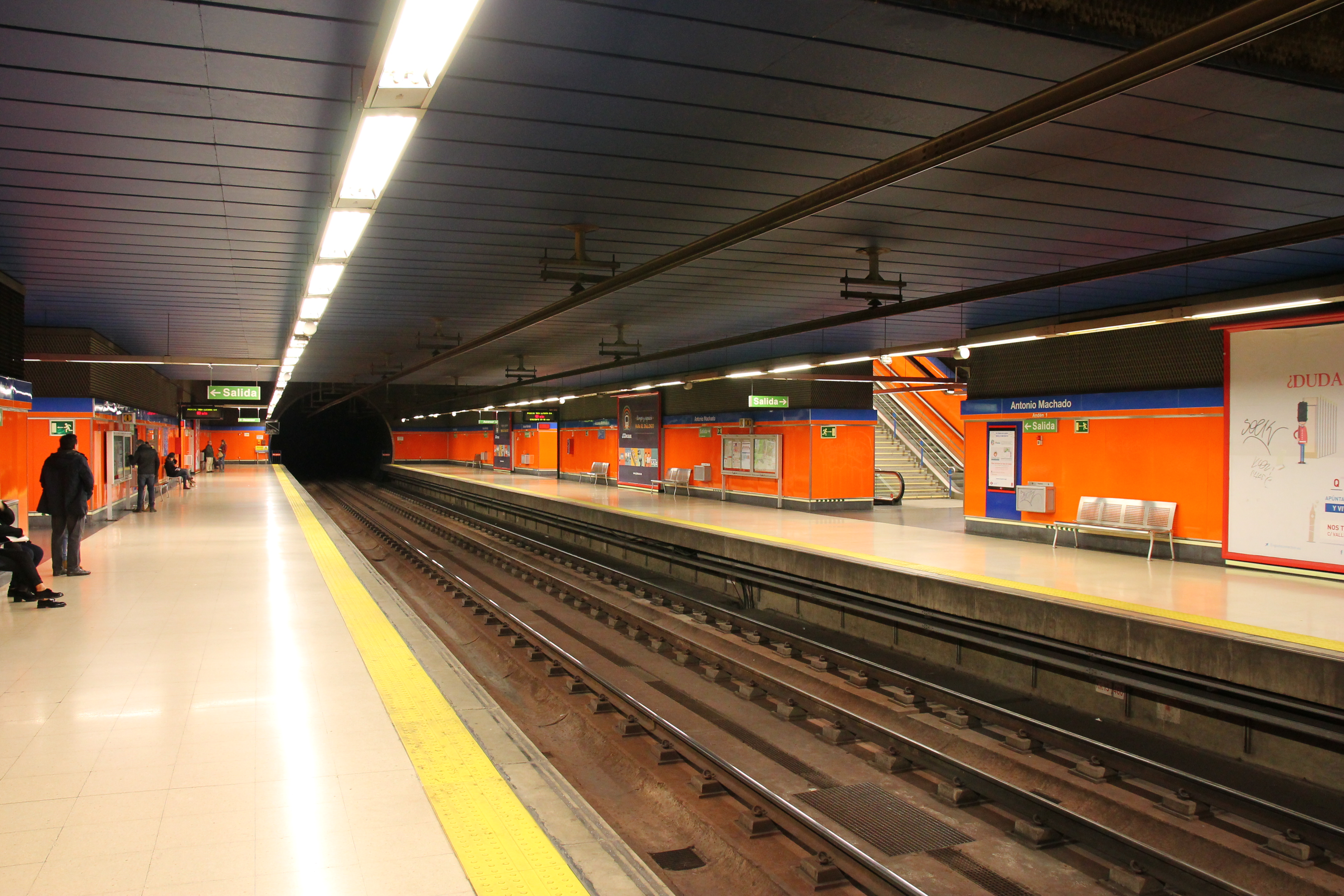 Estación de Antonio Machado